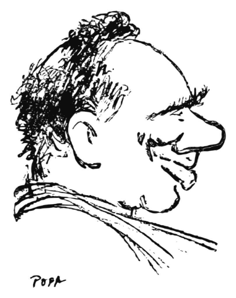 Caricature of the Romanian writer and archeologist Vasile Pârvan.